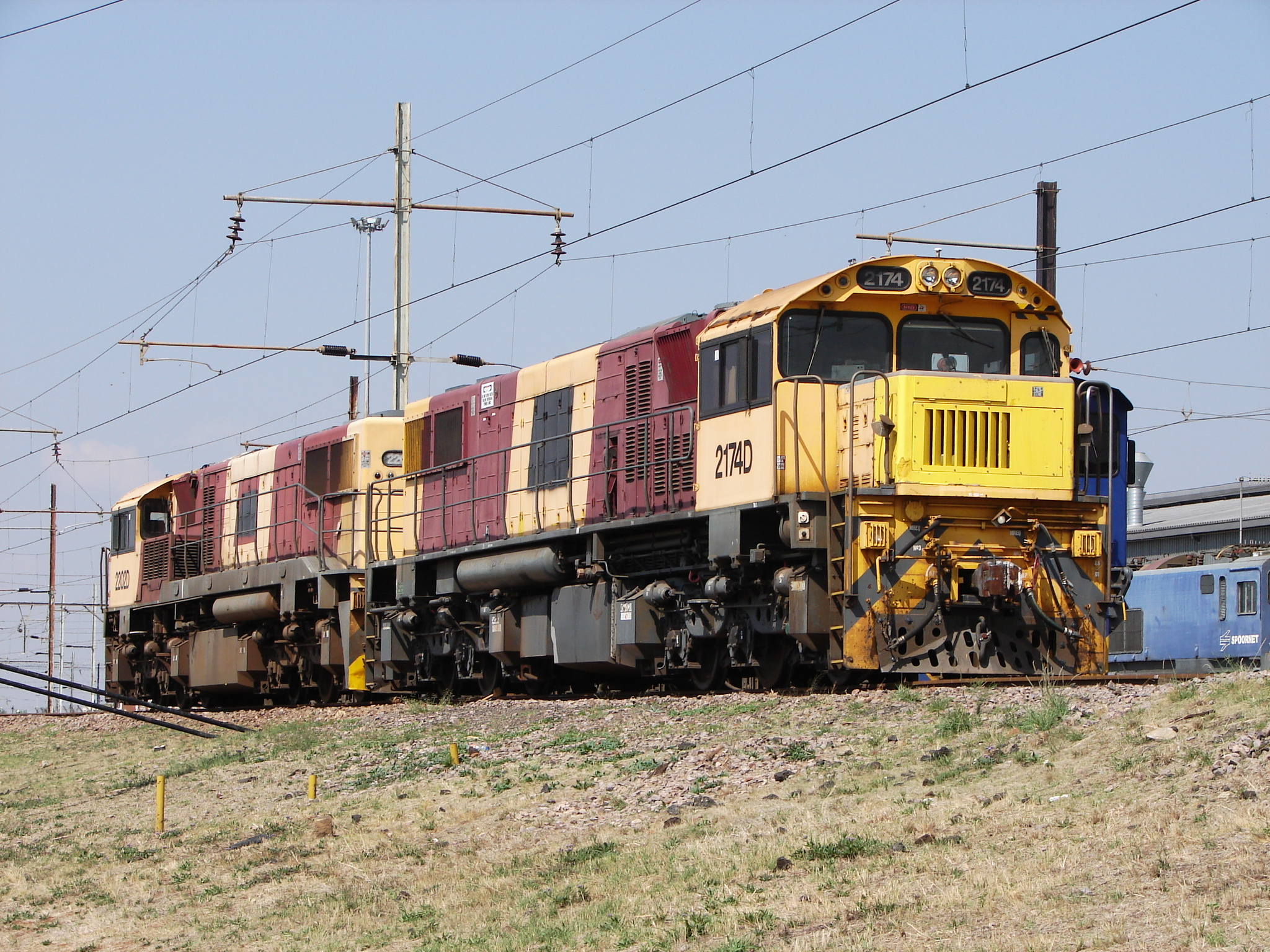 Ex Queensland Railways, then Aurizon 2170 Class no. 2174D, Pyramid South, Gauteng